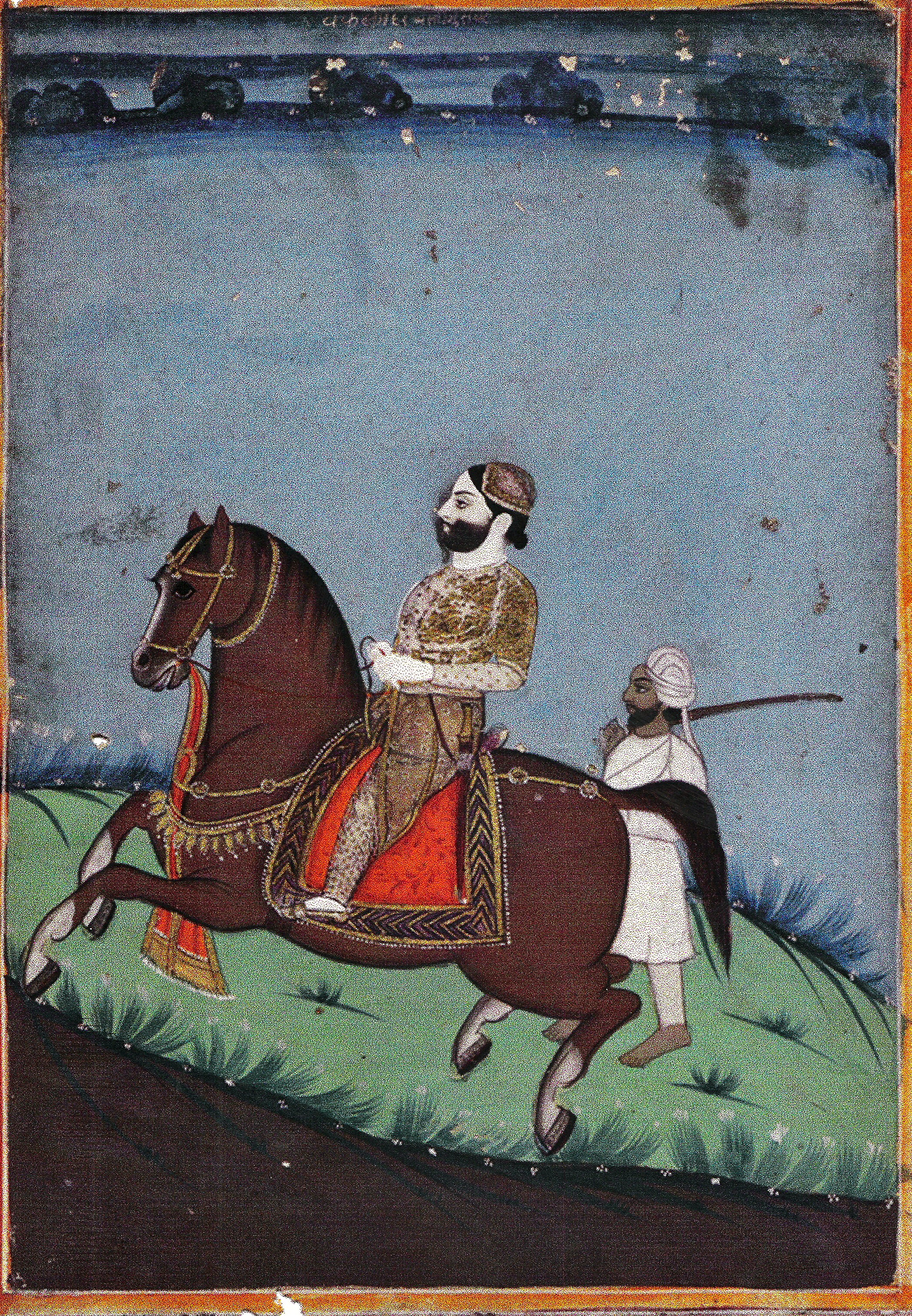 Painting of the period